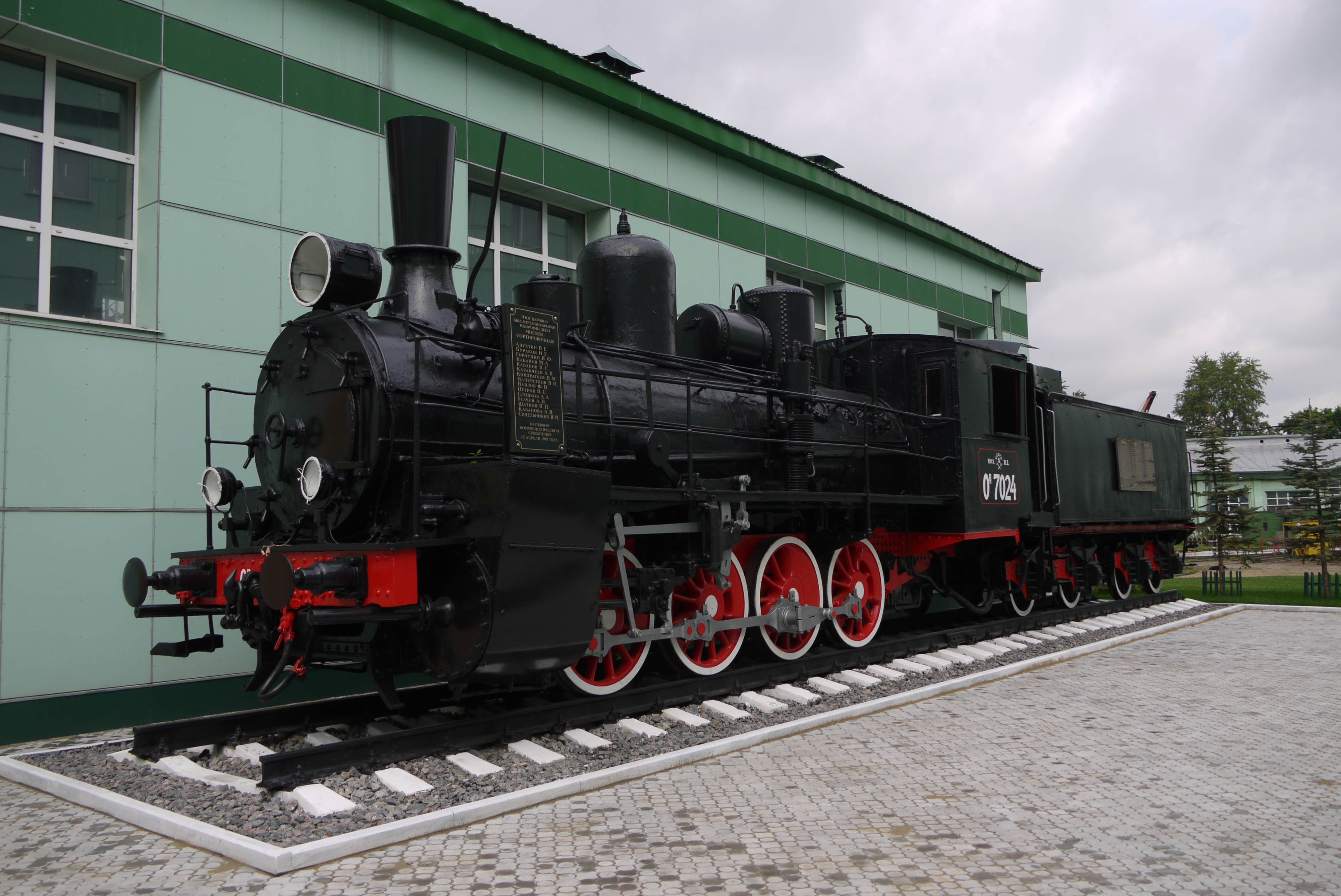 Ov 7024 Moskva-Ryazanskaya /Sortirovochnaya depot Moscow 30 May 2010